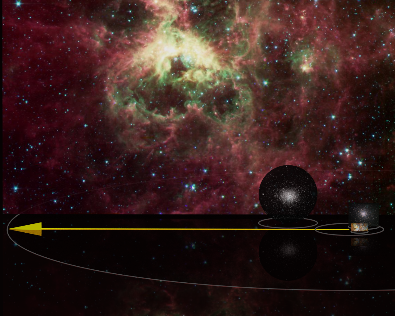 Comparison of lengths and sizes with size order of magnitude 1e18m: thousand light year radius circle with yellow arrow and 100 light year circle at right with globular cluster Messier 5 within and Carina Nebula in front; globular cluster Omega Centauri to left of both; part of the 1400 light year wide Tarantula Nebula fills the background. All distances and sizes approximately to scale. No transparency version.